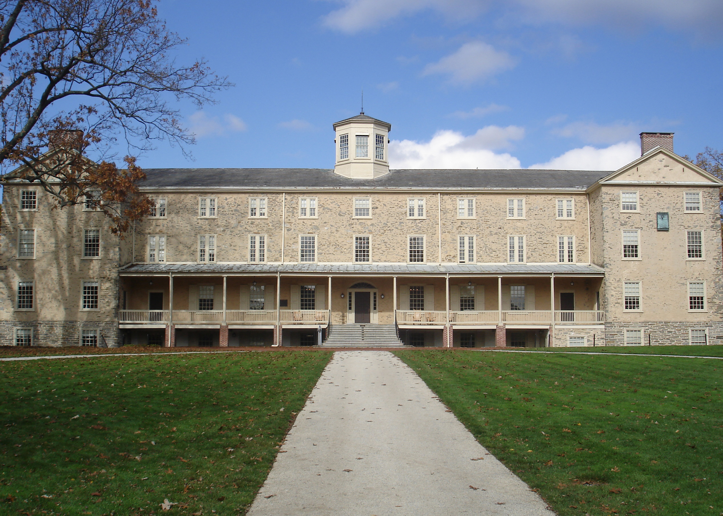 Founders Hall, the centerpiece of the Haverford College campus.